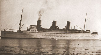 The original appearance of RMS Empress of Japan, with white hull and yellow funnels